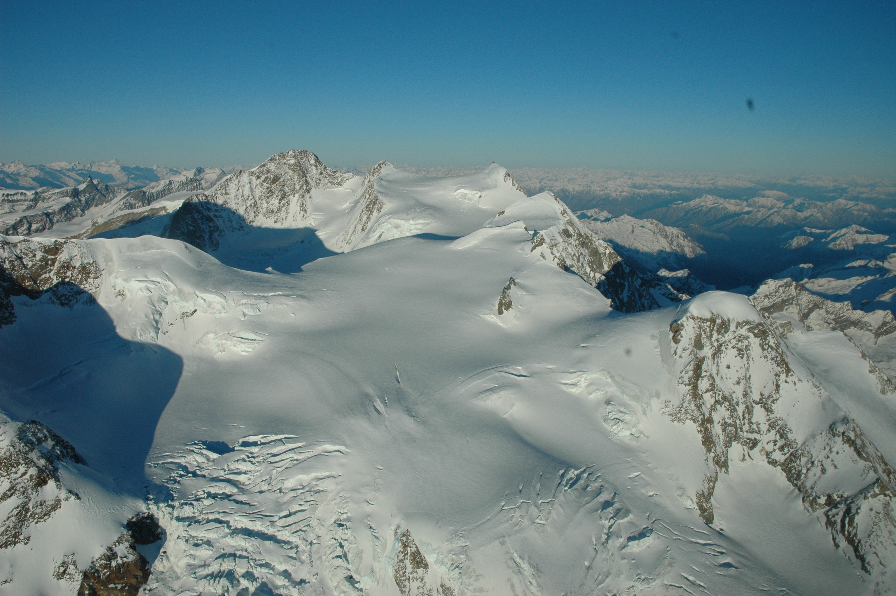 Monte Rosa, Italy, looking east from 17000 feet ASL